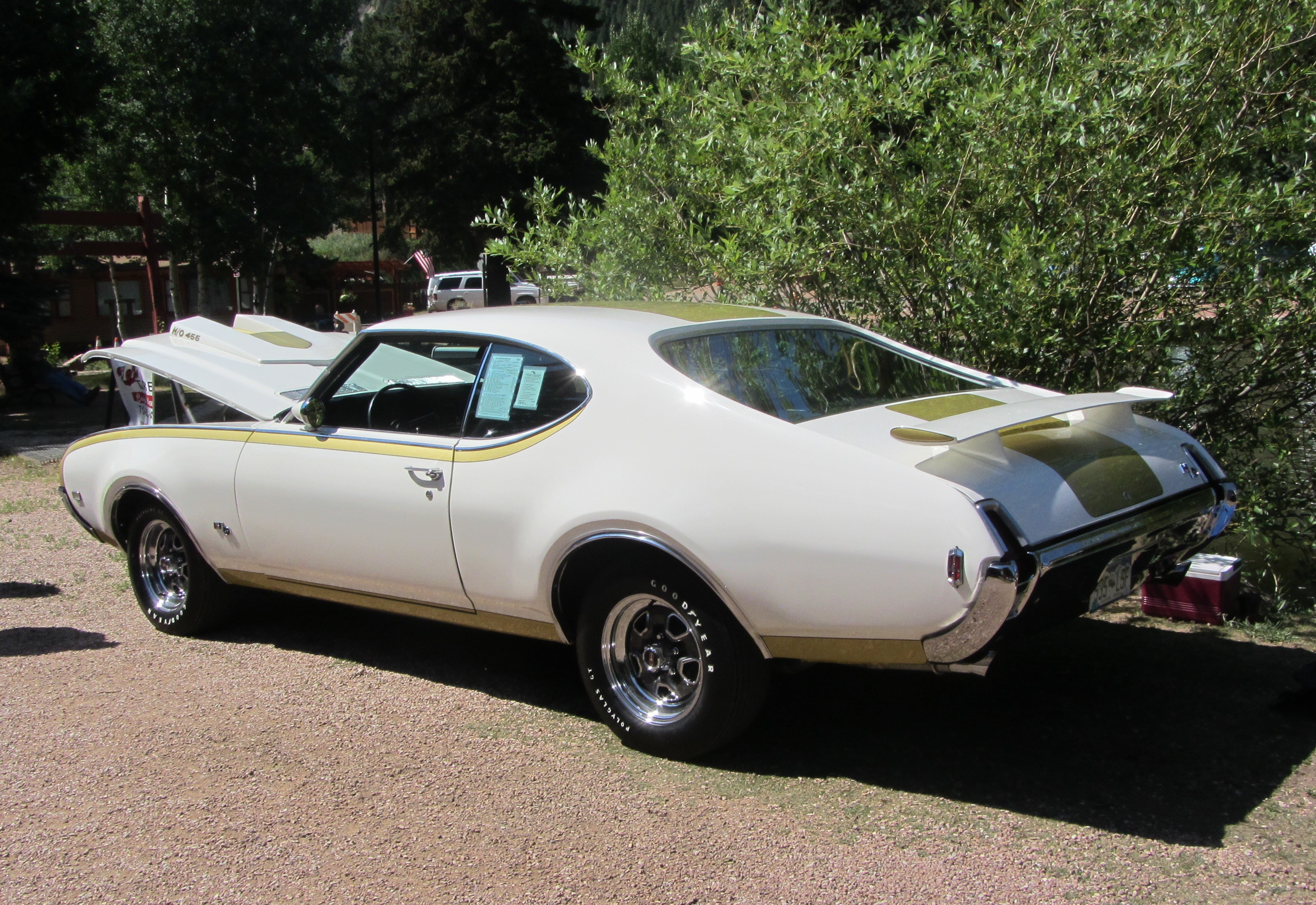 Thin Air Car Show, Green Mountain Falls, Colorado